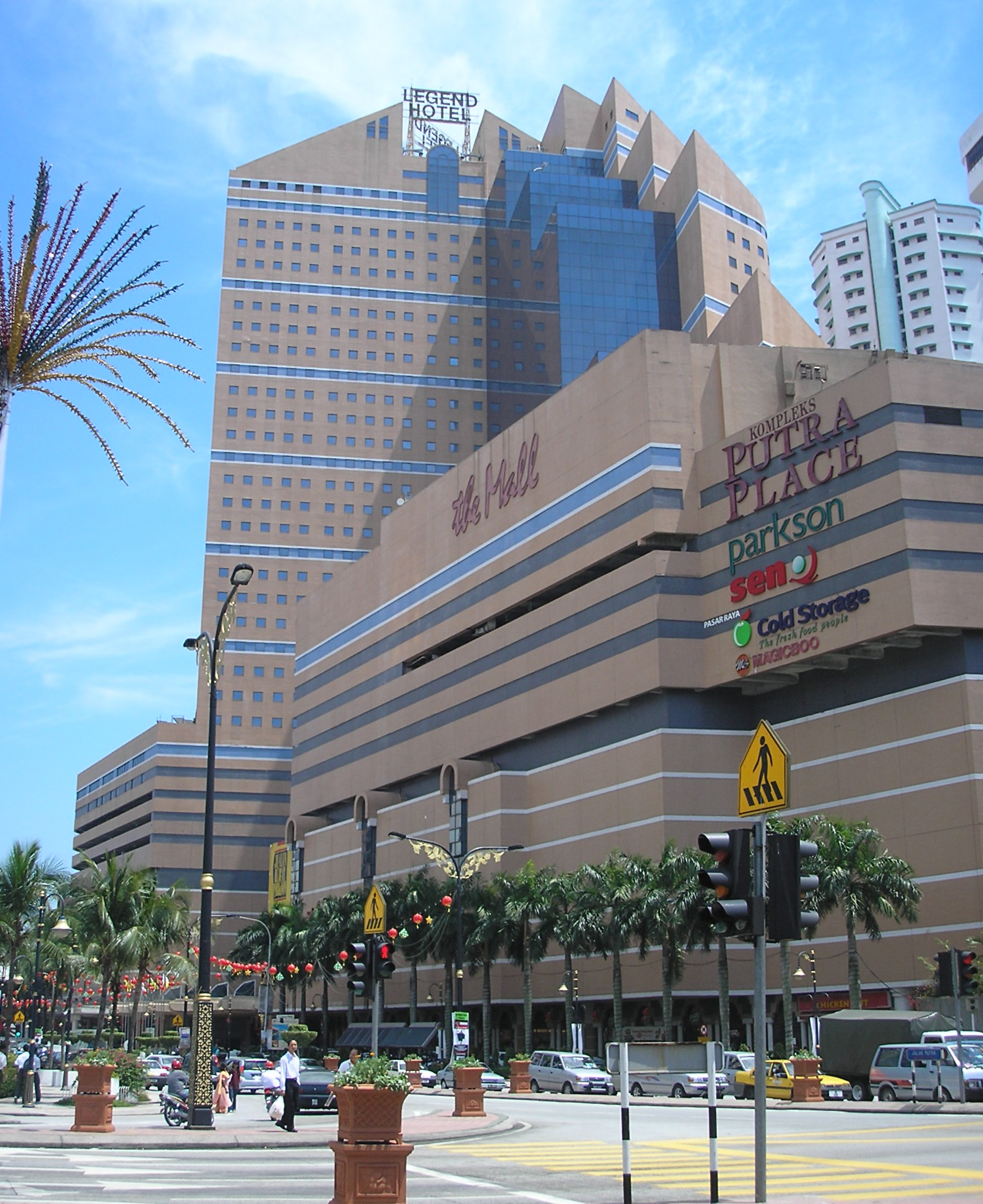 The The Mall and the adjoining Legend Hotel (towering above), opposite the Putra World Trade Centre at Jalan Putra in Kuala Lumpur, Malaysia.